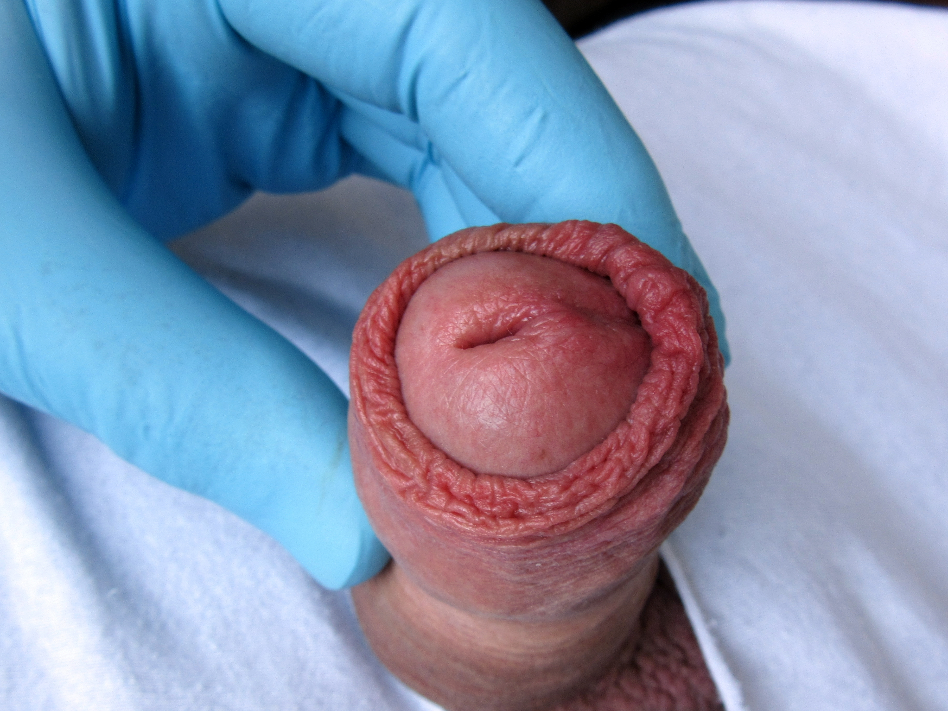 Inner foreskin layer inflamed